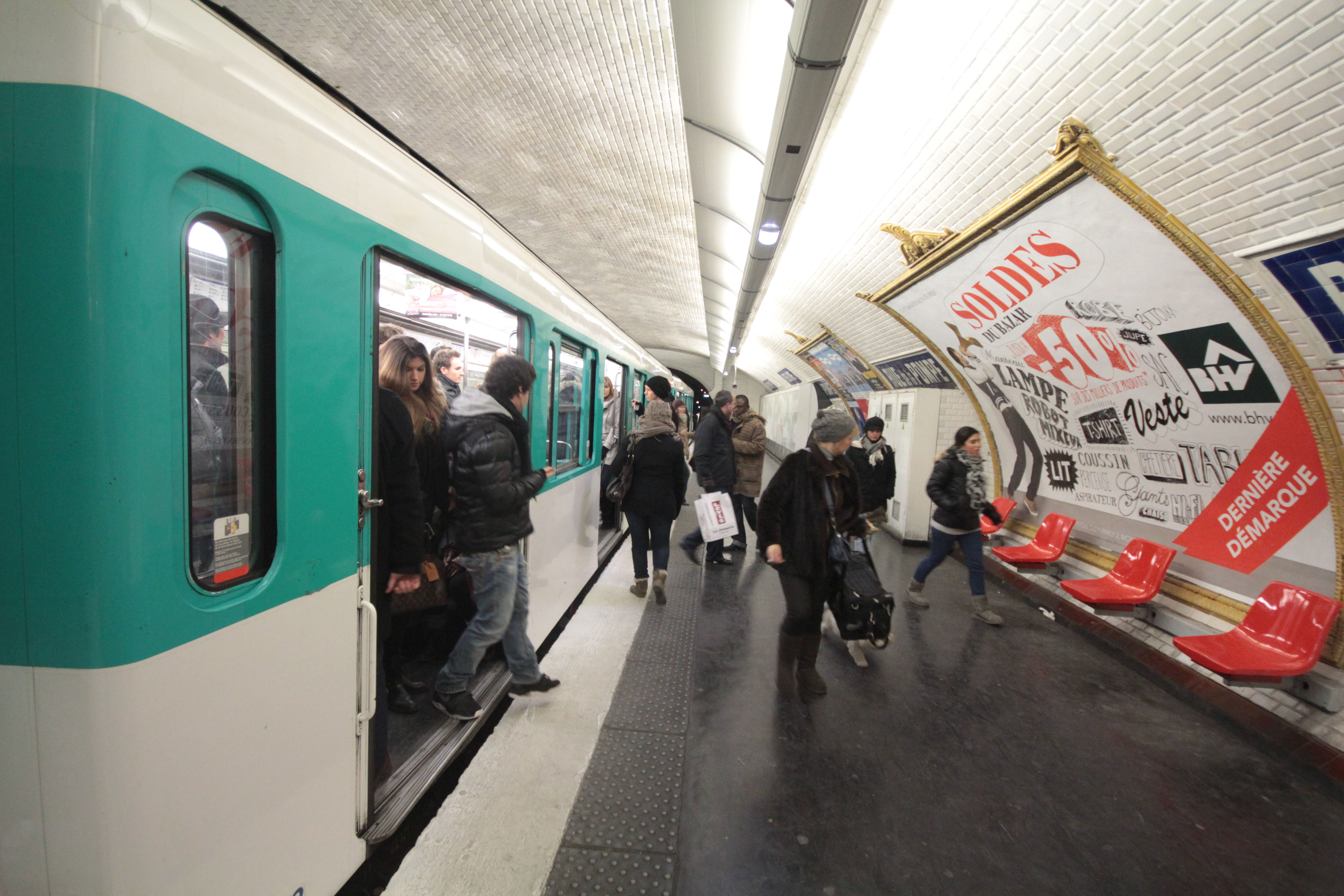 Metro station rue de la Pompe on Parisian metro line 9